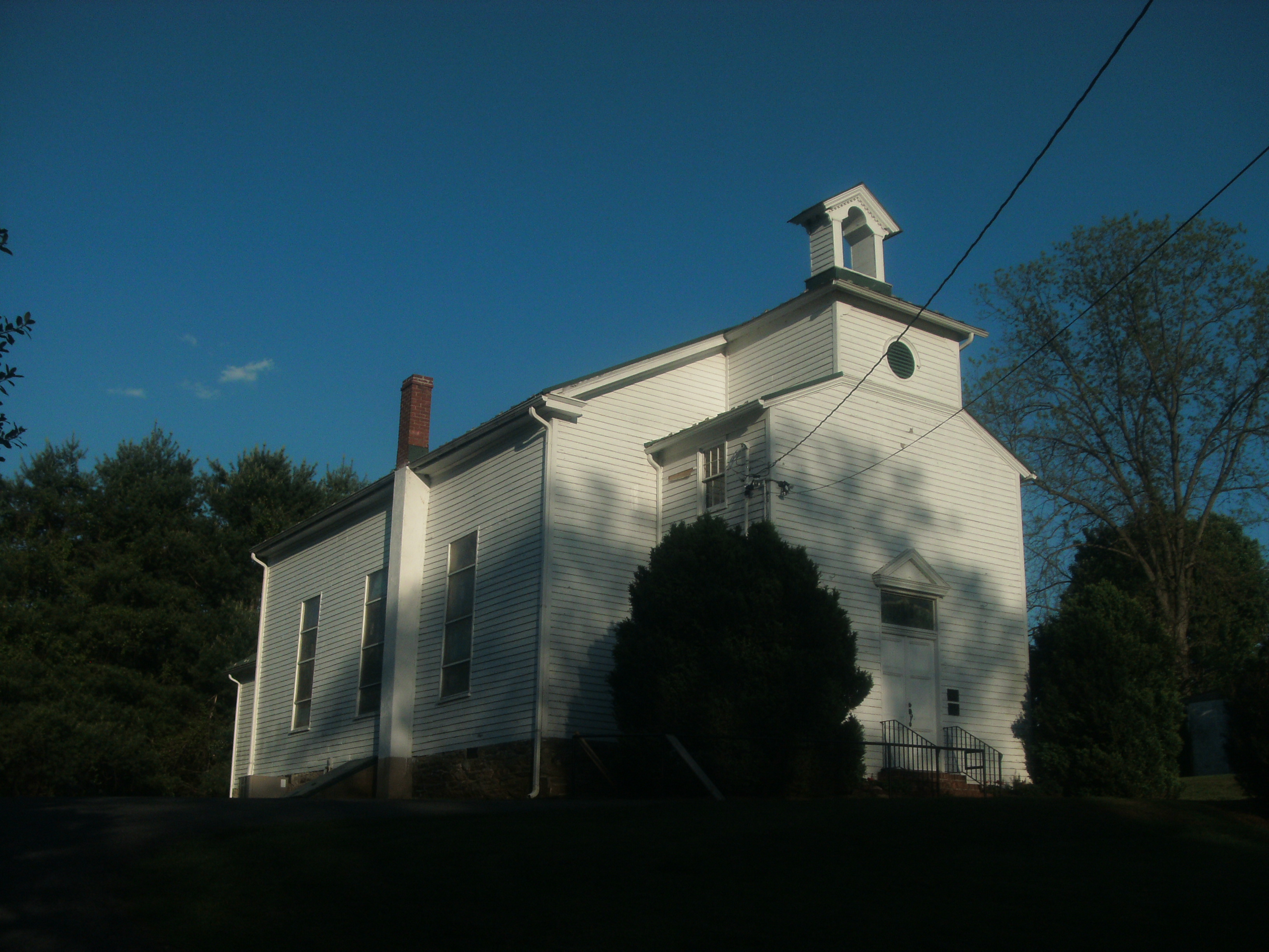 Taken by me in May, 2016 GEDSC DIGITAL CAMERA